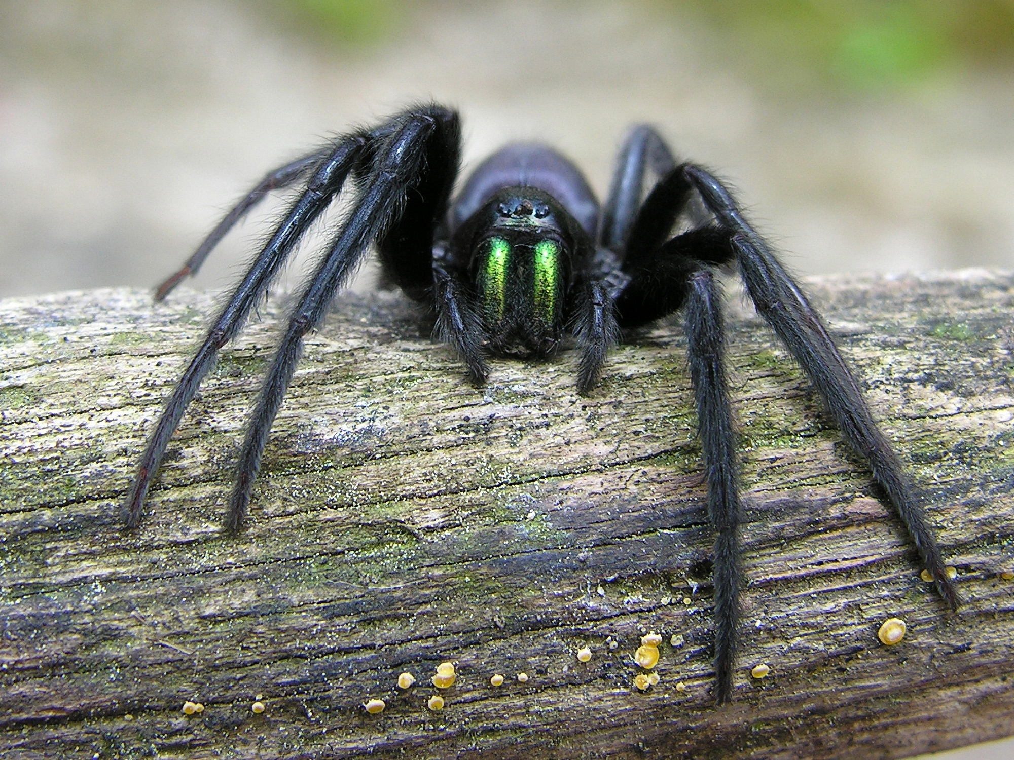 Segestria florentina in Oza dos Ríos, Galicia, Spain. Publish by= Luis Miguel Bugallo Sánchez. Self made